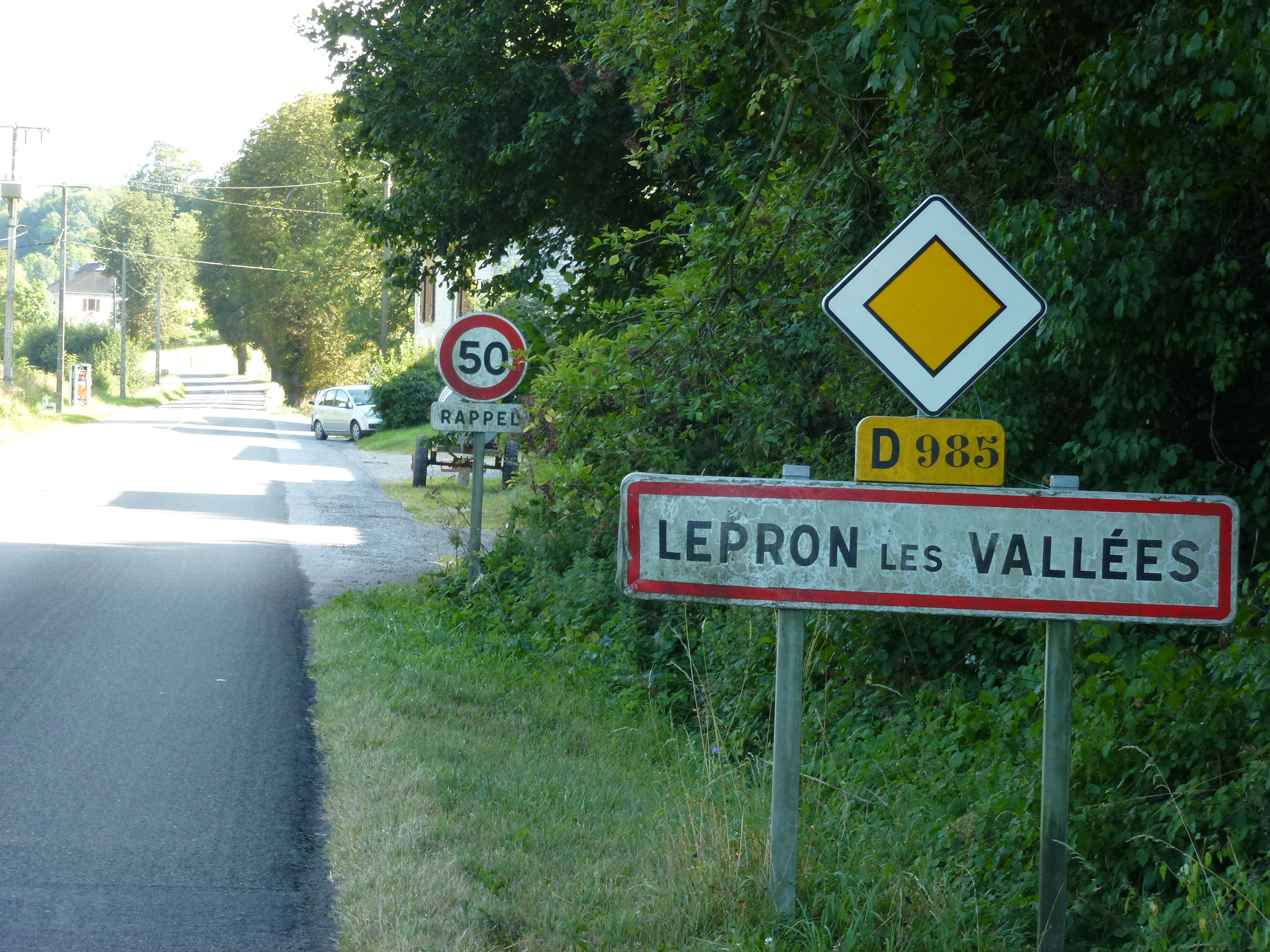 Lépron-les-Vallées (Ardennes) city limit sign